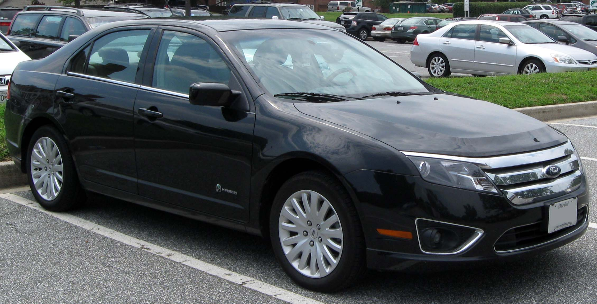 2010 Ford Fusion Hybrid photographed in College Park, Maryland, USA.